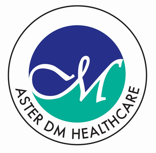 ASTER DM HEALTHCARE LOGO